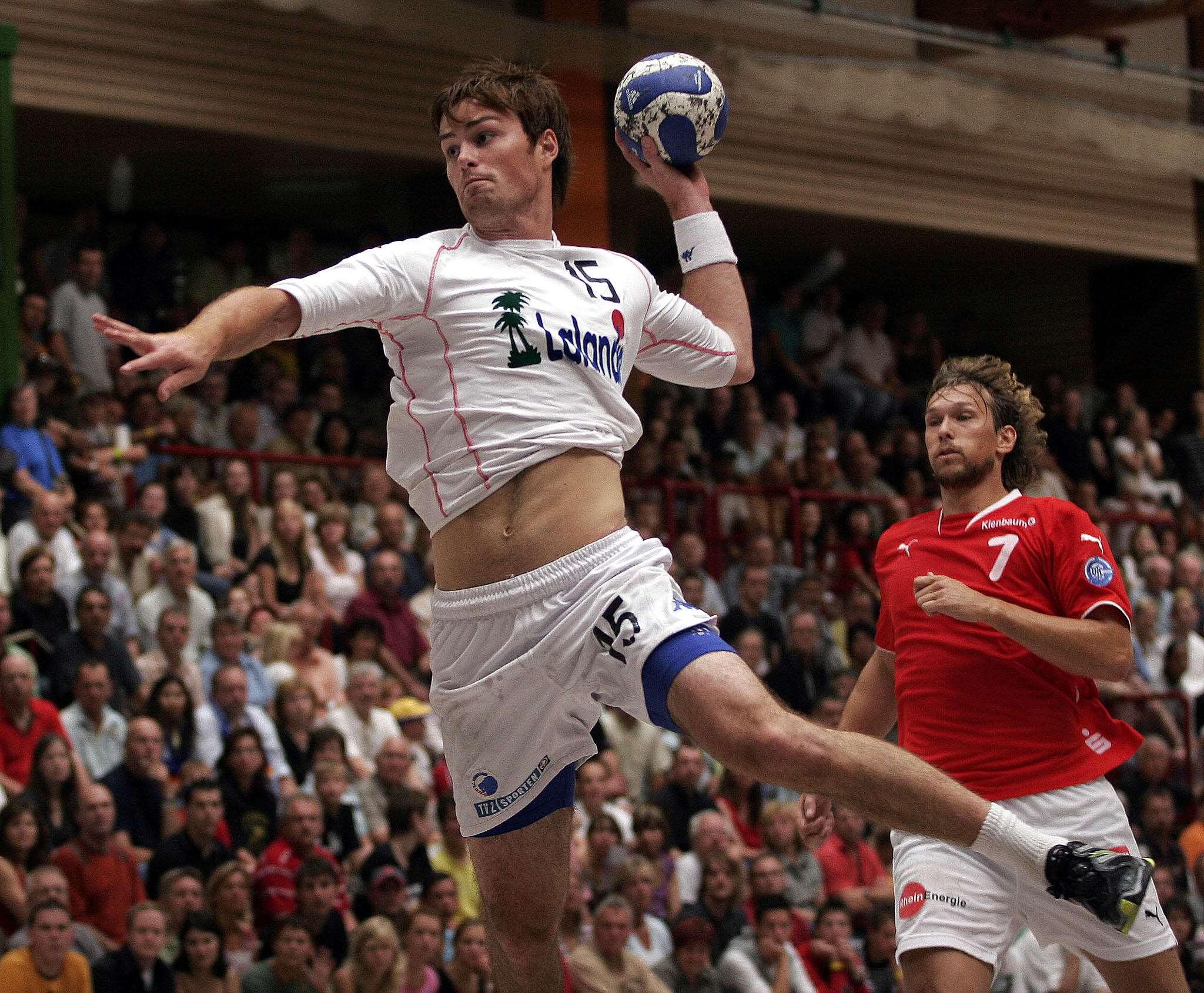 Fredrik Lindahl, Swedish handball player FCK Håndbold, during the Schlecker Cup 2007 in Ehingen (Germany)